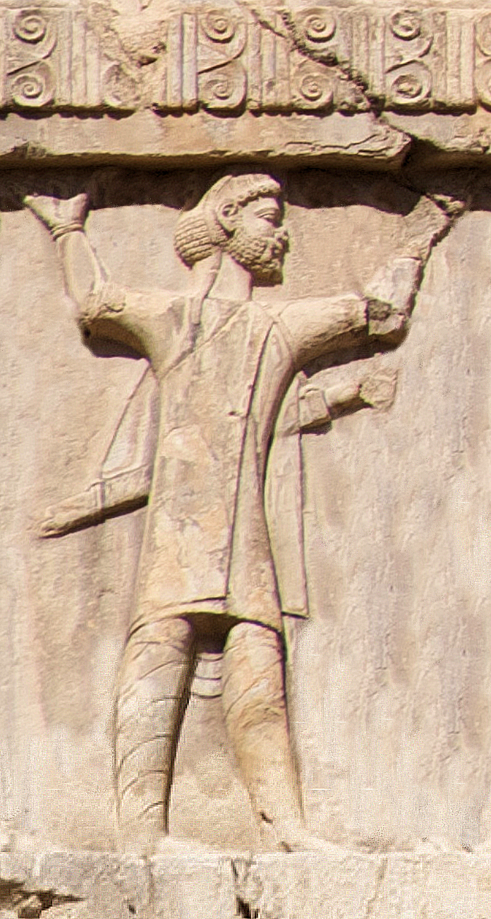 Xerxes I tomb Lydian soldier circa 470 BCE